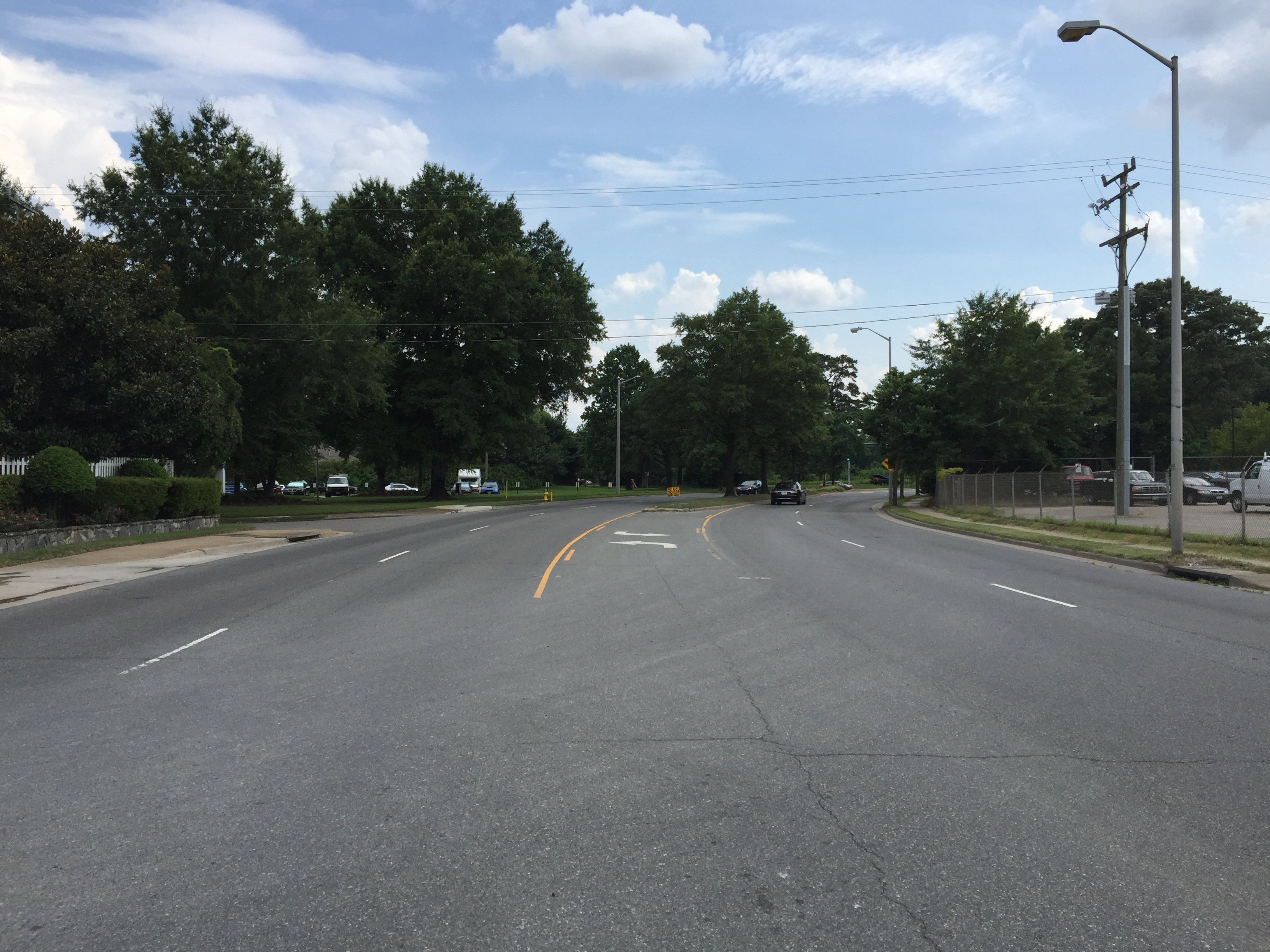 View south along Virginia State Route 405 (Ballentine Boulevard) between Connector Avenue and Corprew Avenue in Norfolk, Virginia